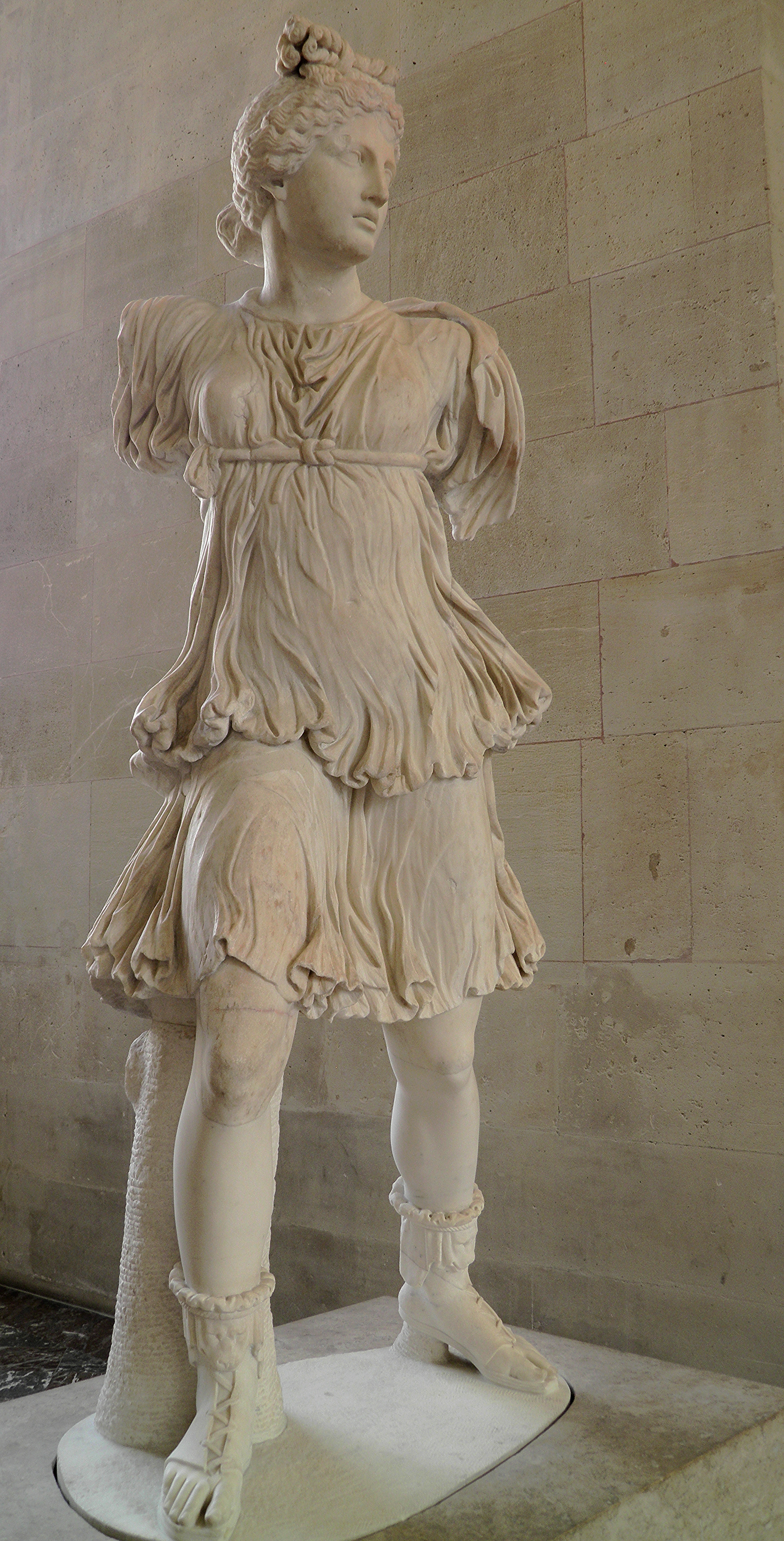 Artemis of the Rospigliosi type. Marble, Roman copy of the 1st–2nd centuries CE after a Hellenistic original, maybe the bronze group mentioned by Pausanias (I, 25, 2), which represented a gigantomachia. Dimension: H. 1.63 m (5 ft. 4 in.) Department of Greek, Etruscan and Roman Antiquities, Sully wing, ground floor, room 17